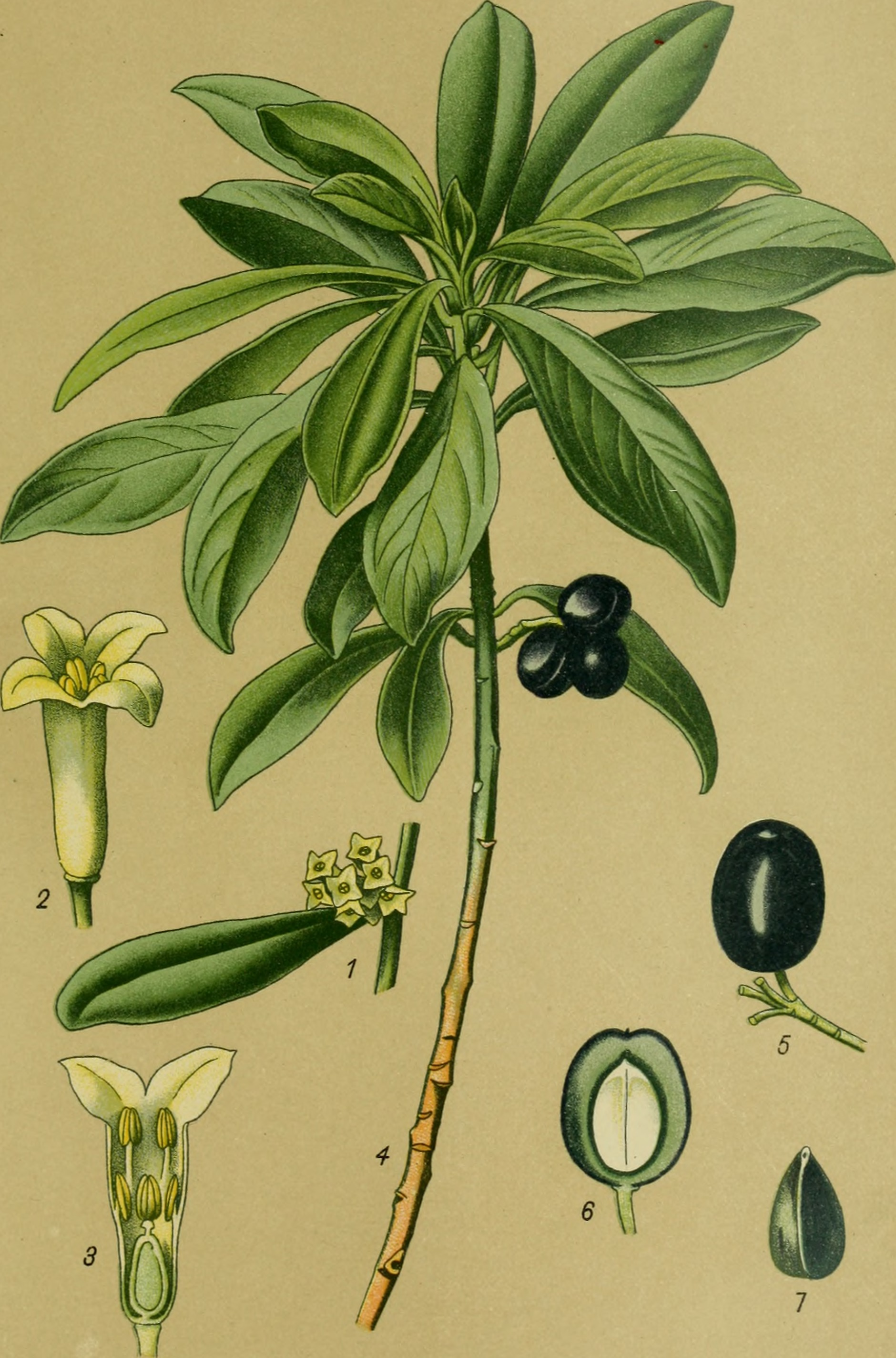 Title: Die Giftpflanzen Deutschlands Year: 1910 (1910s) Authors: Esser, Peter, 1859- Subjects: Poisonous plants Publisher: Braunschweig, F. Vieweg Text Appearing Before Image: Tafel 65. Tafel 65. Text Appearing After Image: Lorbeerblättriger Eellerhals. Dapbne Laureola L 1 Bliitenzweig. 2 Blüte. 3 Blüte im Längssclinitt. 4 Zweig mit Früchten. 5 Frucht. 6 Frucht im Längsschnitt. 7 Same. 2, 3 u. 5, 6, 7 vergr.